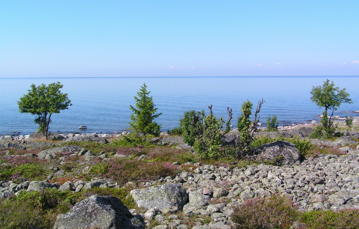 Vegetation at the shoreline, Holmön, Sweden